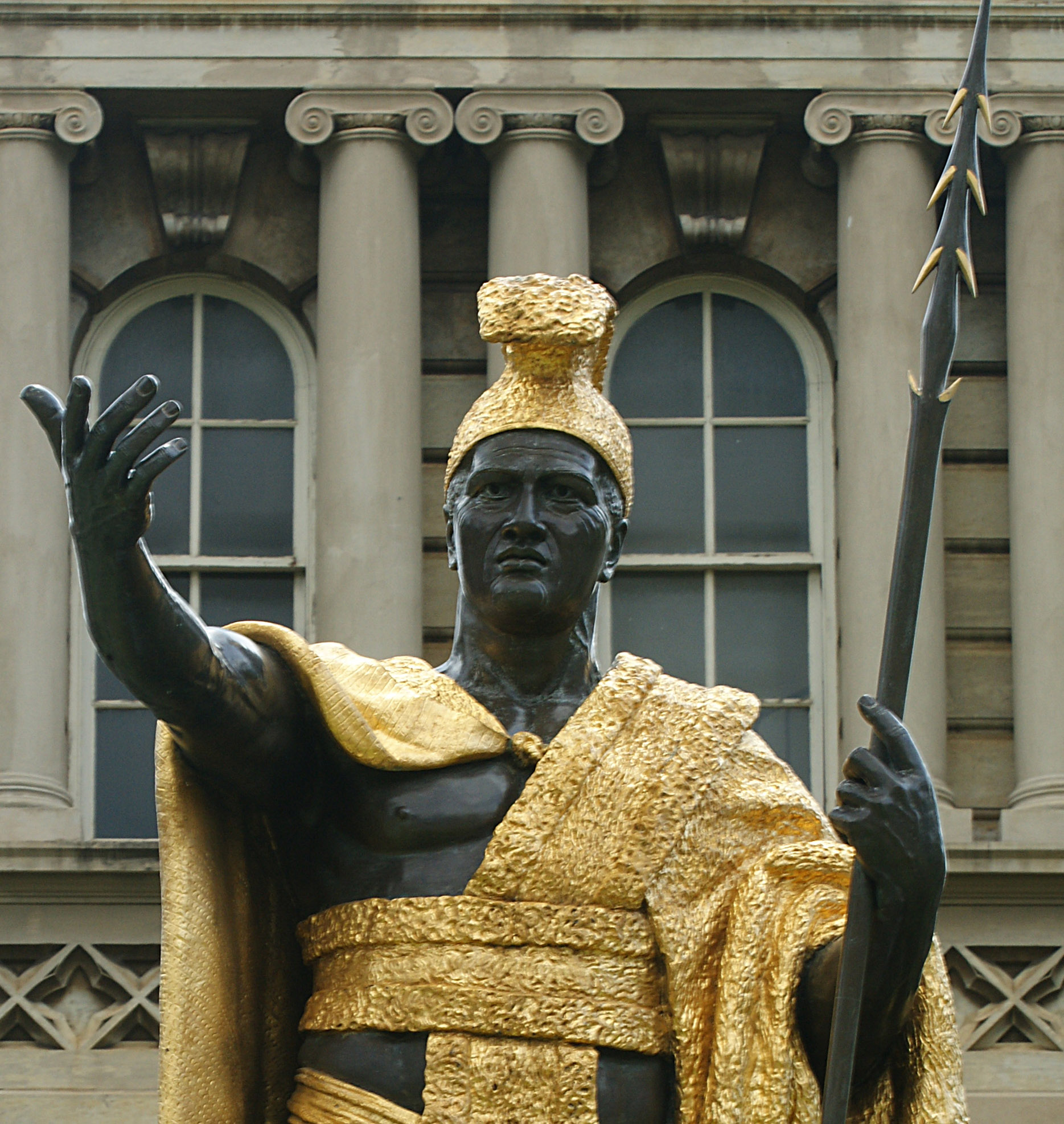 Statue of King Kamehameha I, standing in front of Ali'iolani Hale in Honolulu. Cast: 1881, bronze with gold leaf. Approx 8½ feet tall on a 10 foot concrete base. The pedestal has four bronze and gold leaf plaques with scenes from Kamehameha's life. Sculptor: Thomas Ridgeway Gould (1818–1881).